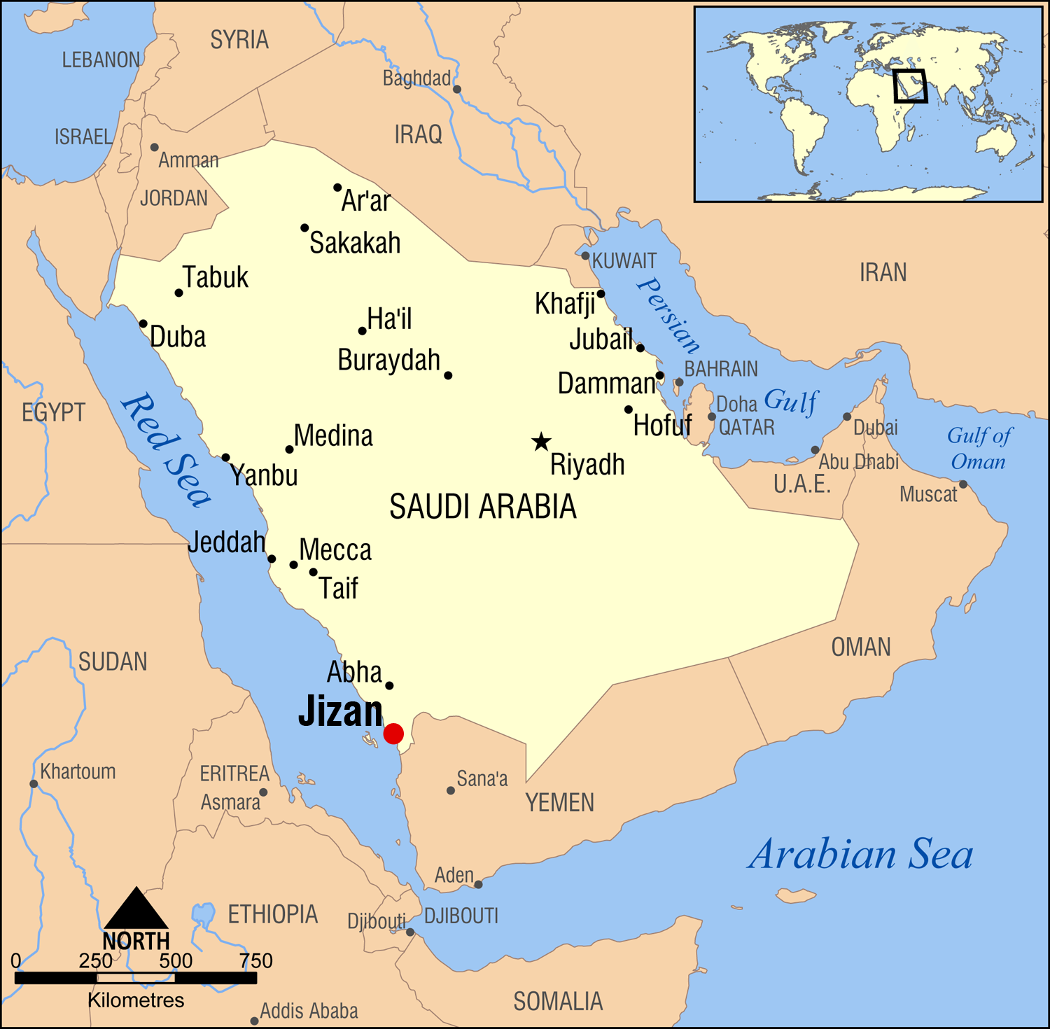 Locator map of Jizan, Saudi Arabia. Created by NormanEinstein, May 5, 2006.